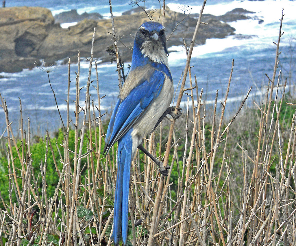 Usually busy snatching pretzel rings from the stalks, this jay finally paused long enough to pose for my camera while we were visiting Point Lobos in California. I've also chosen not to brighten up the bird more (see the adjacent shot), since that washes out the blue in the ocean backdrop.